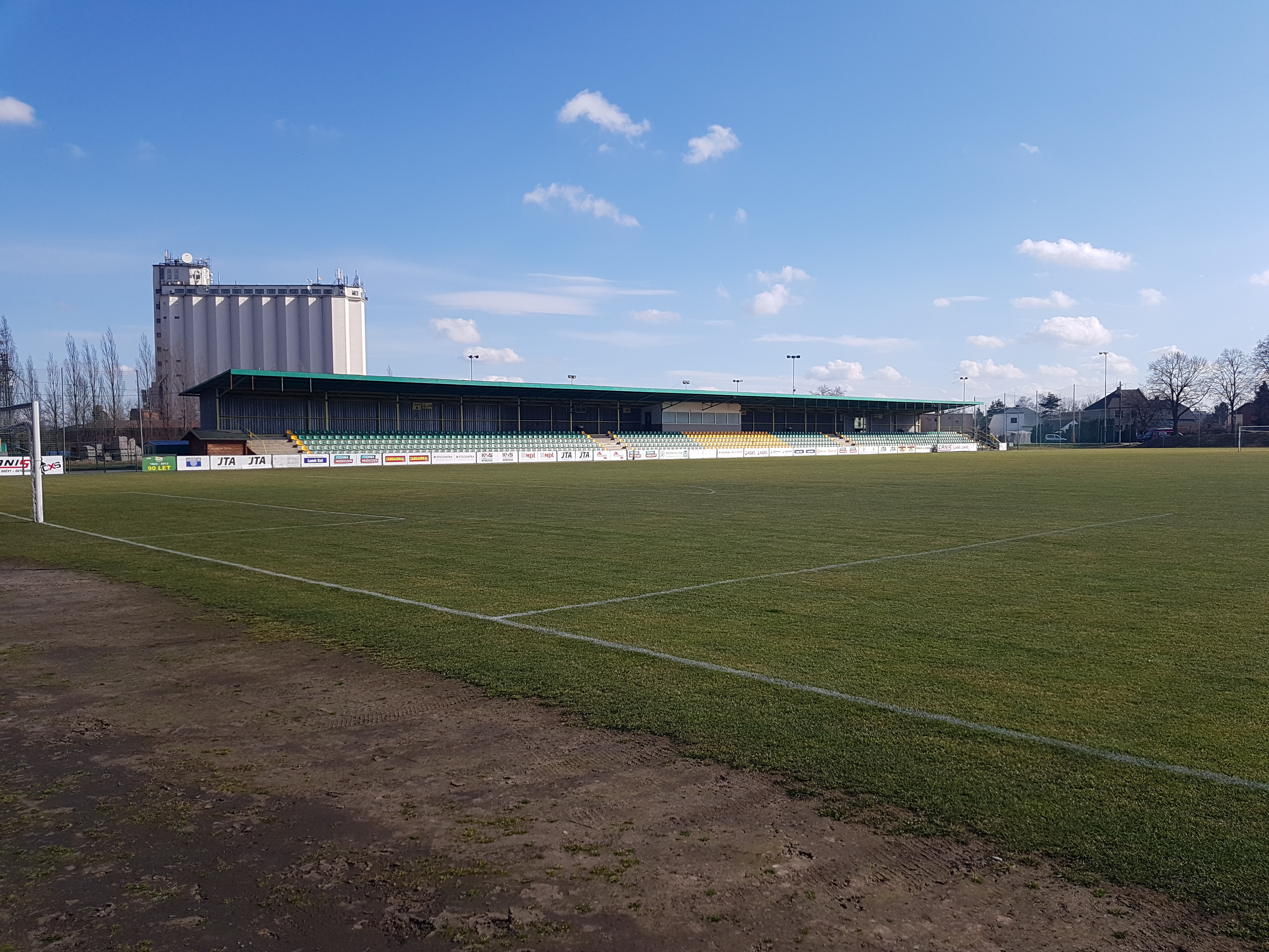 City football stadium in Hlučín, Czech Republic